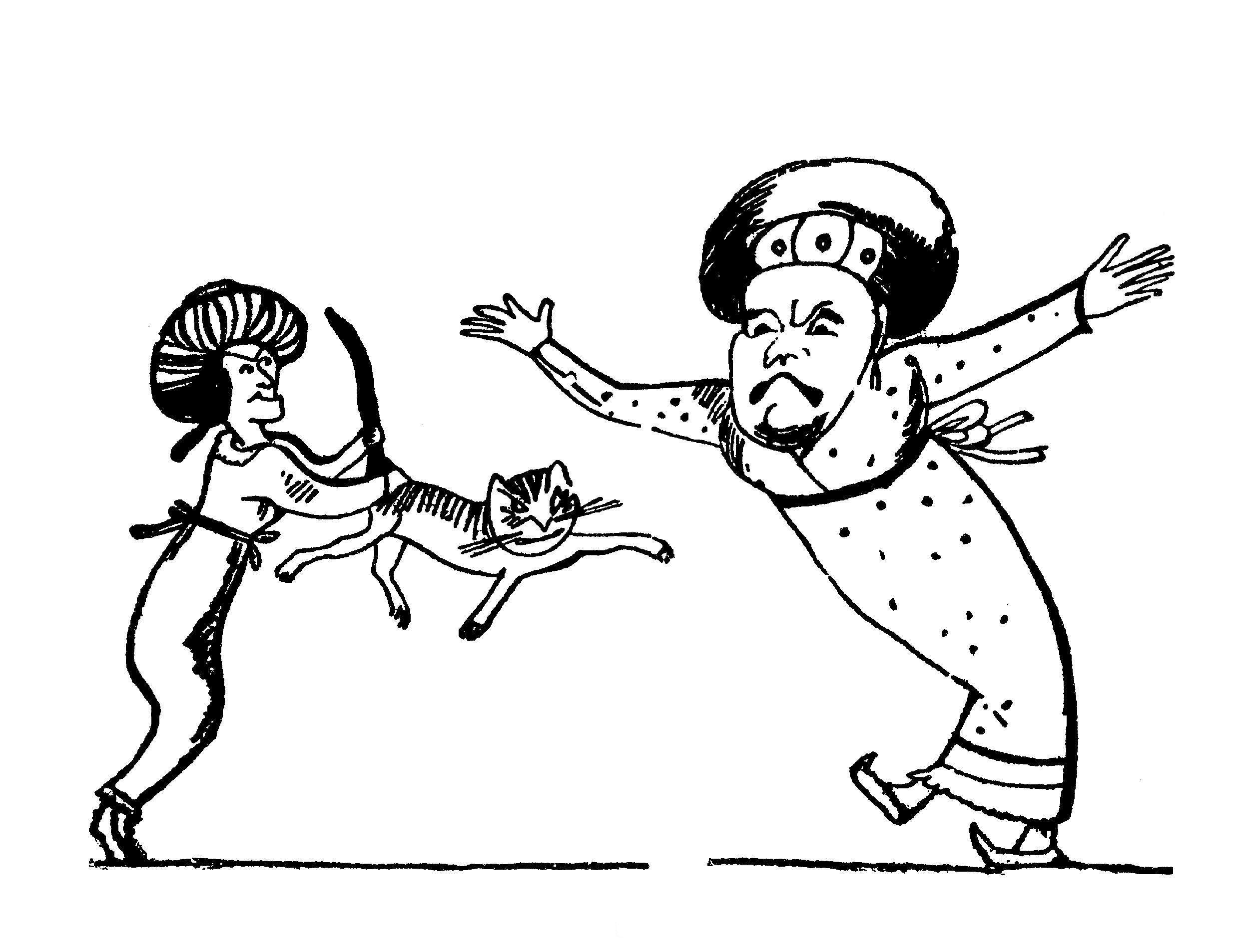 Edward_Lear_A_Book_of_Nonsense_06.jpg